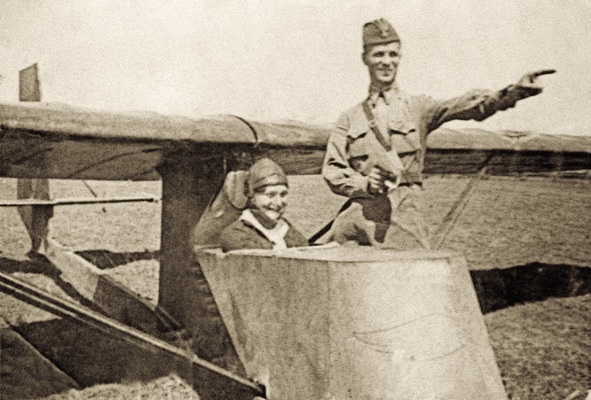 An Antonov A-1 or (derivative) primary training glider